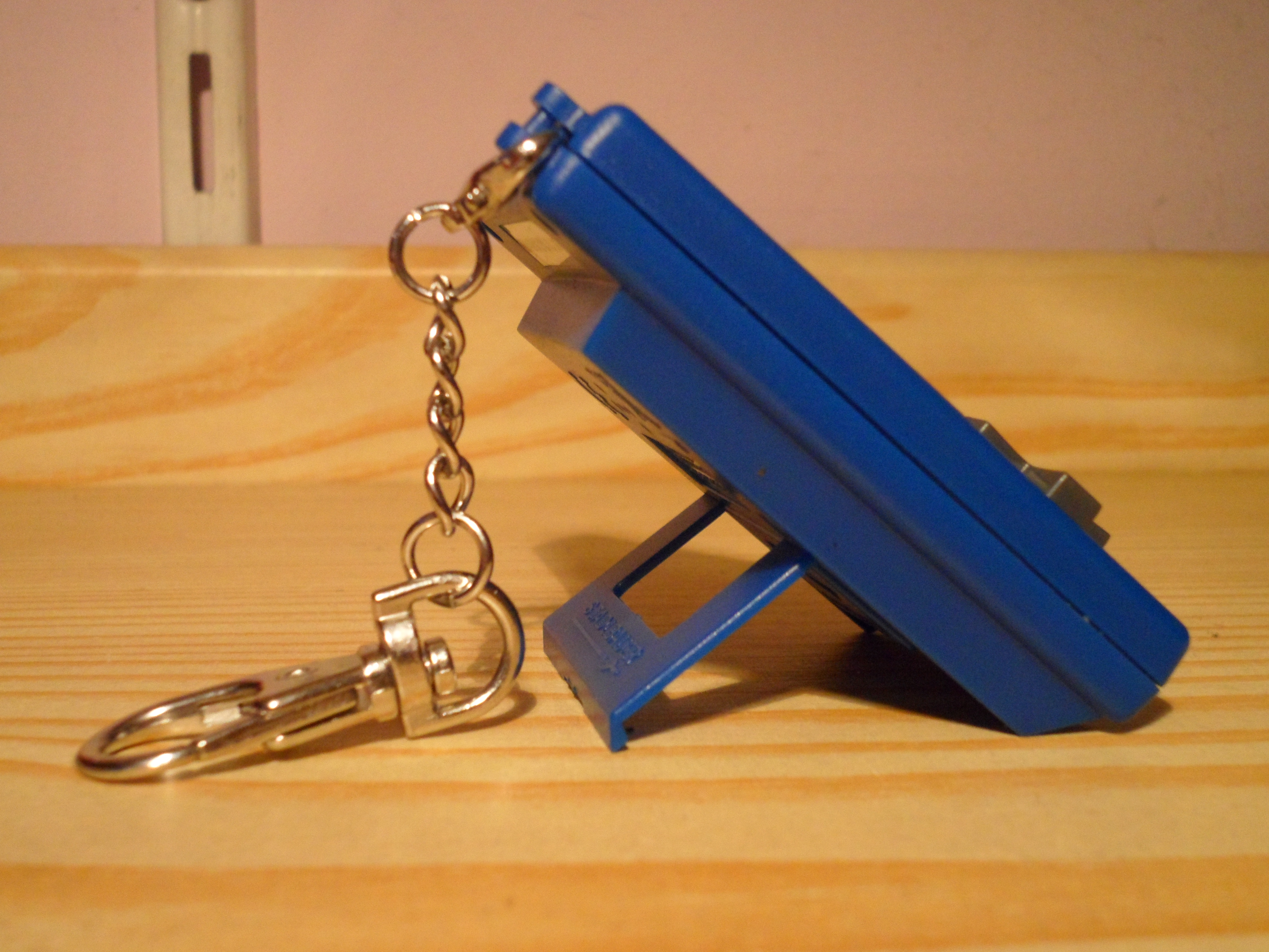 Stadlbauer 2014